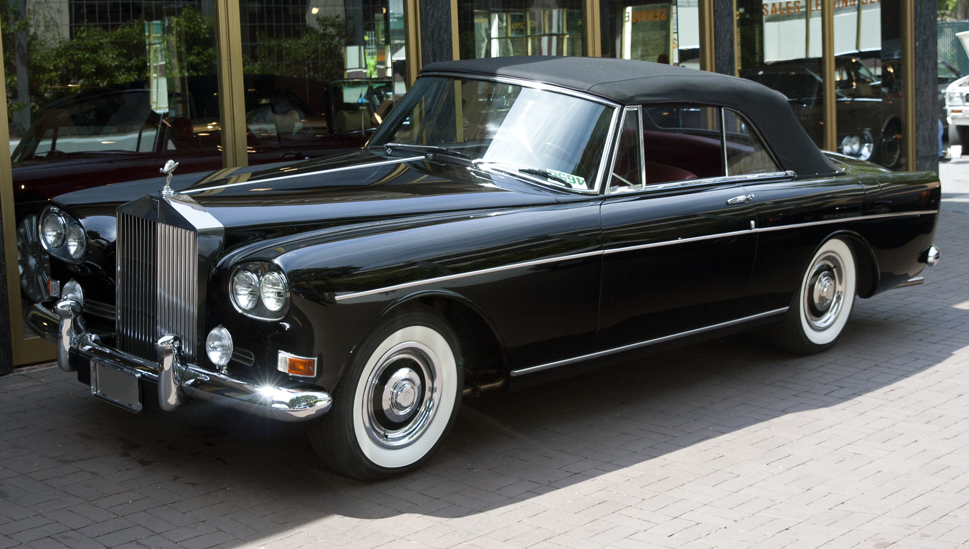 1966 Rolls-Royce Silver Cloud III Drophead Coupé by Mulliner Park Ward, #46 of 49 LHDs built. Chassis LCSC75C was delivered new in Paris on 8 February 1966 to Prince Fawaz Bin Abdul Aziz Al Saud (of Saudi Arabia) for his personal use on the Riviera. It had found its way to the US by 1980, belonging to someone in oil. Has changed hands (and coasts) a few times since, currently located in Connecticut.[1]